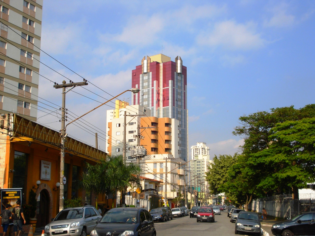 rua Doutor César (street), Santana, Sao Paulo, SP, Brazil.